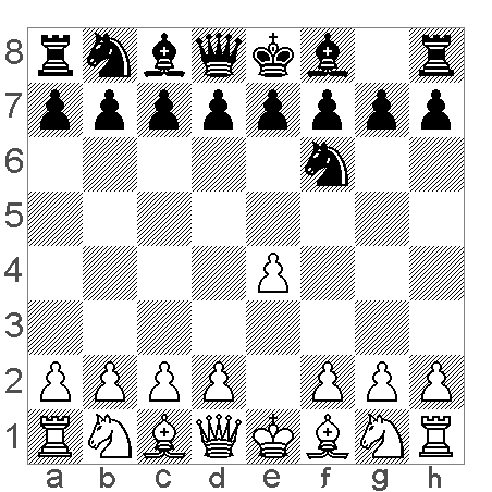 chess diagram Alekhine's defence begin position (1.e4 Kf6) Source: CBlight + my processing